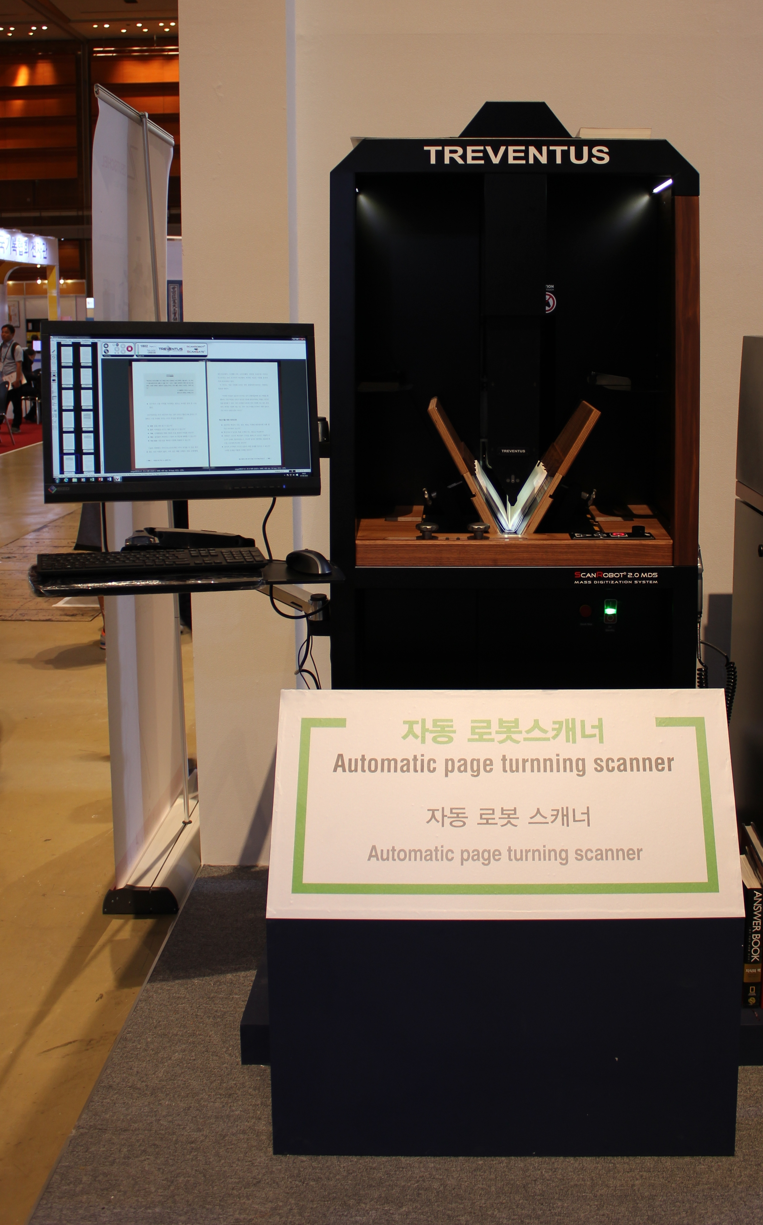 ScanRobot scanner at a fair in Asia